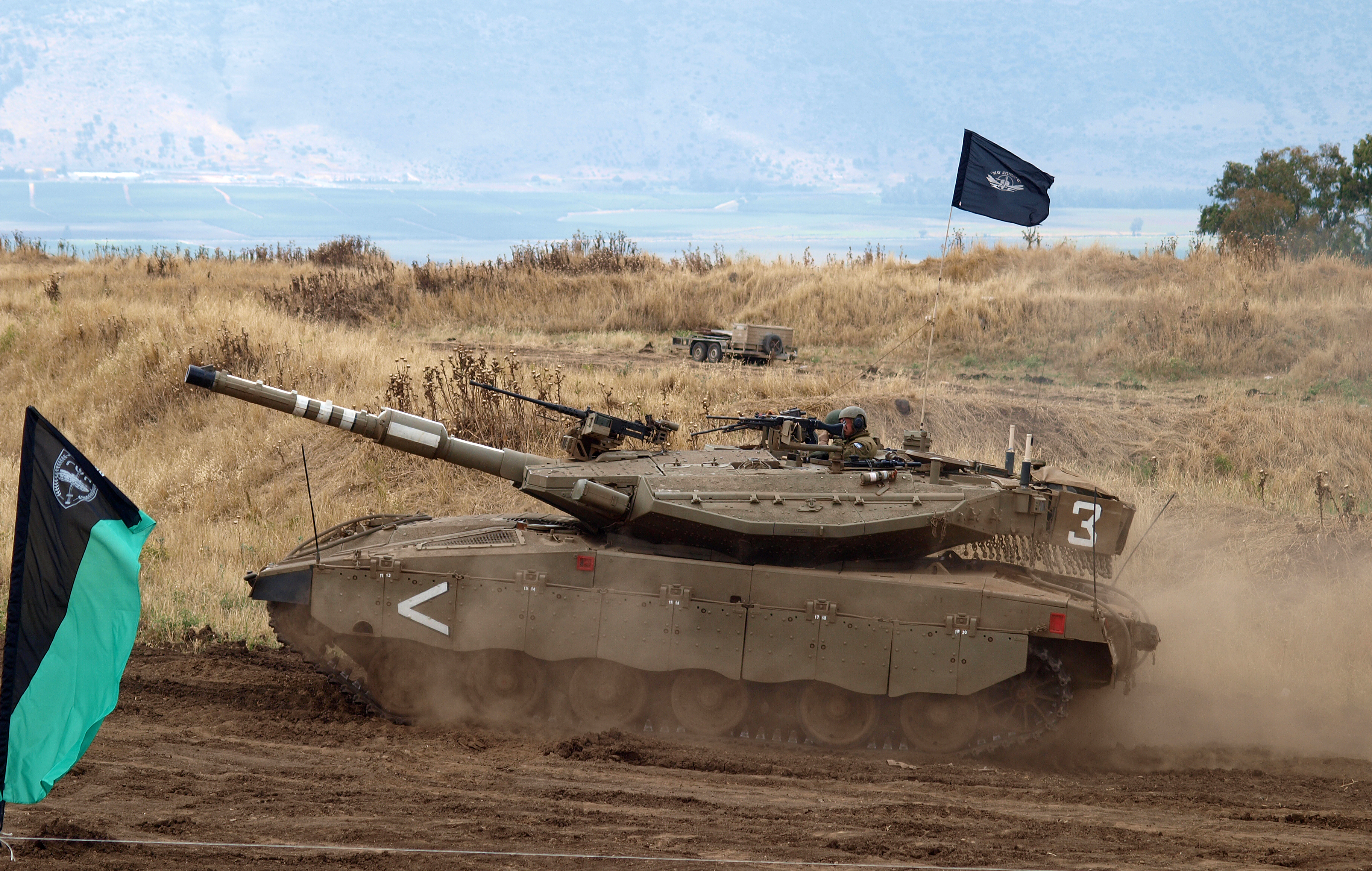 Merkava Mk 3D Baz tank